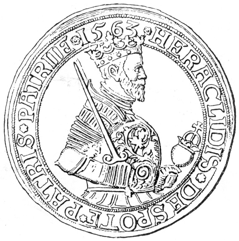 Iacob Eraclid Despot of Moldavia